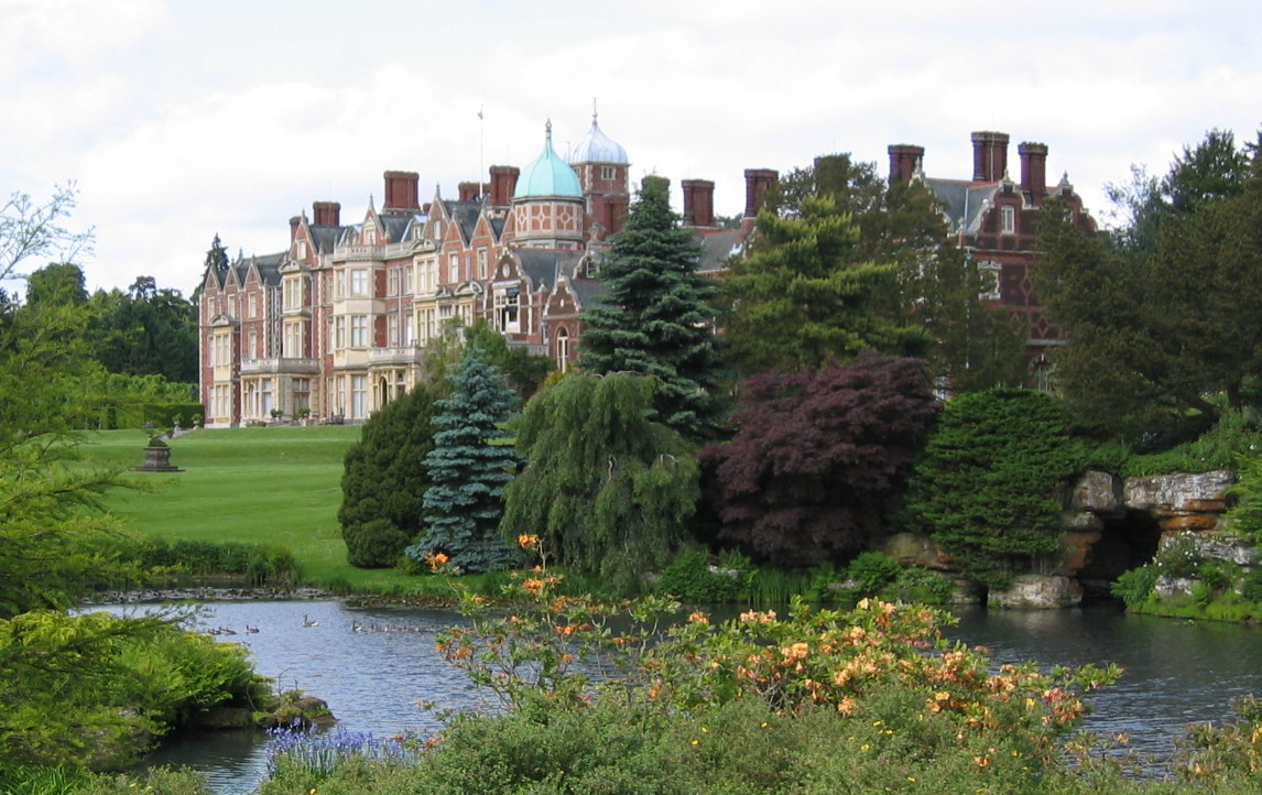 Sandringham House, Norfolk.